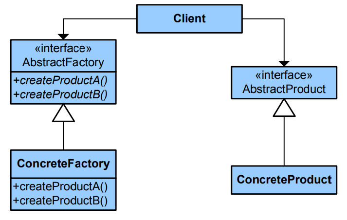 this is UML, use to show how pattern works